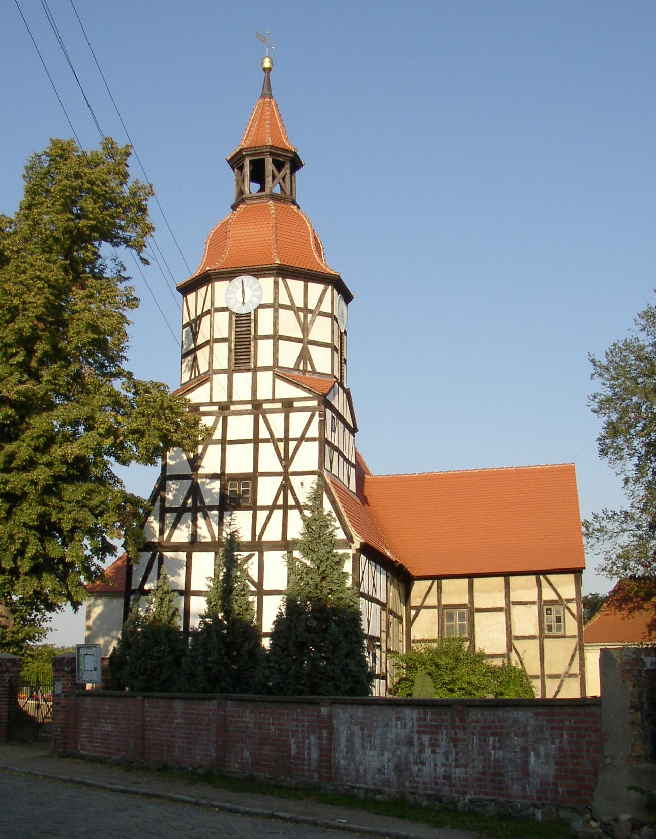 Cross Church in Klieken in Saxony-Anhalt, Germany